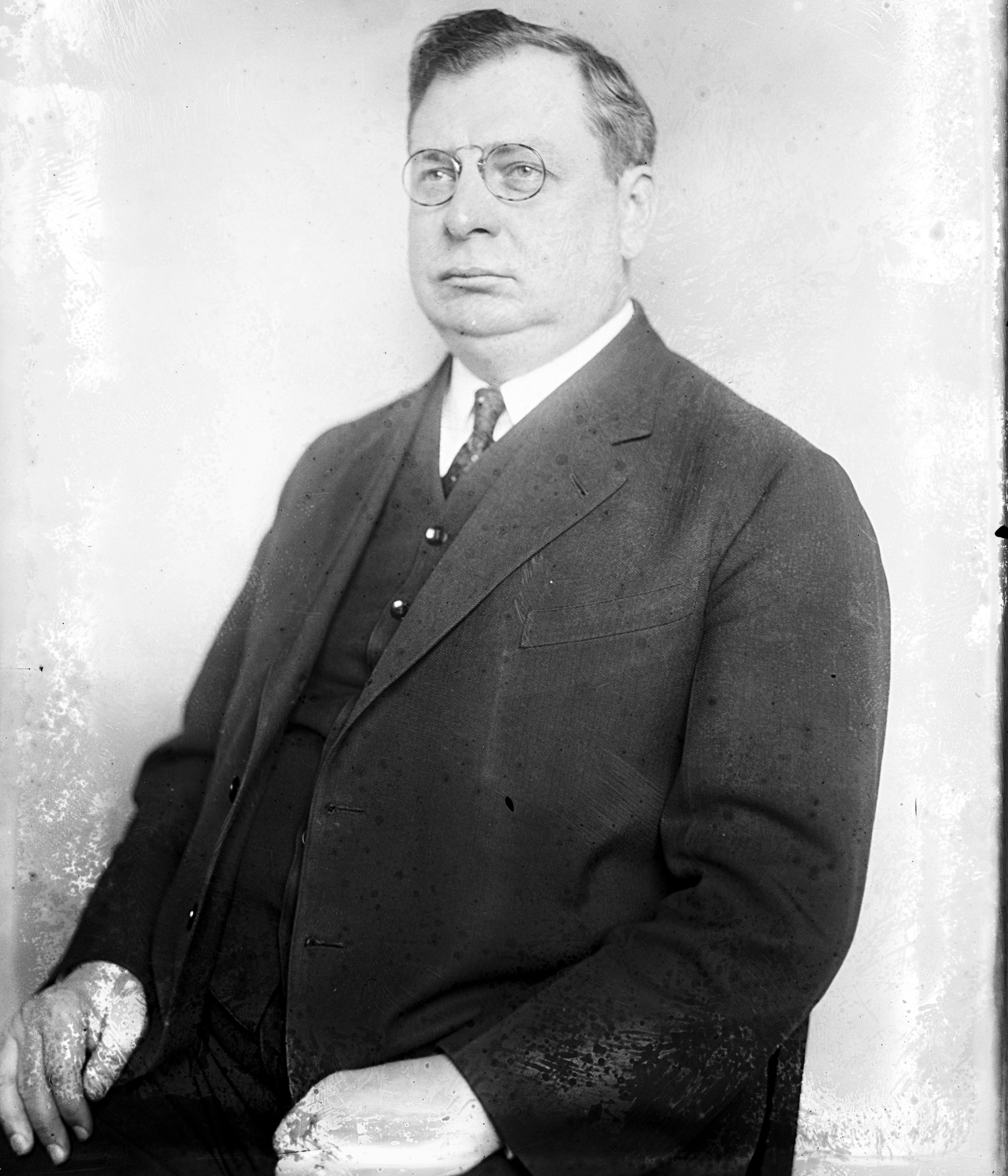 Guy L. Shaw, US Representative from Illinois